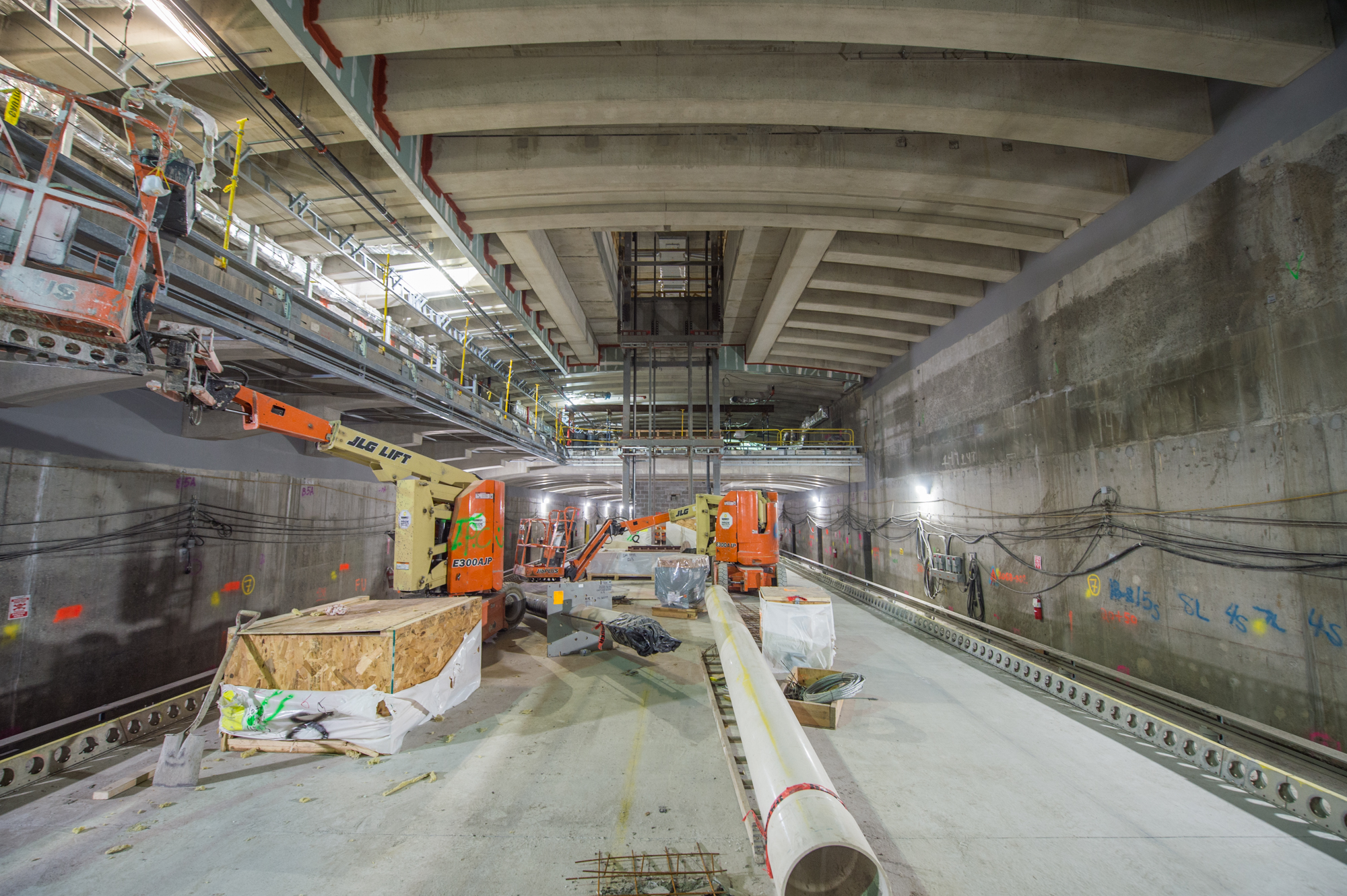 Lower level passenger platform